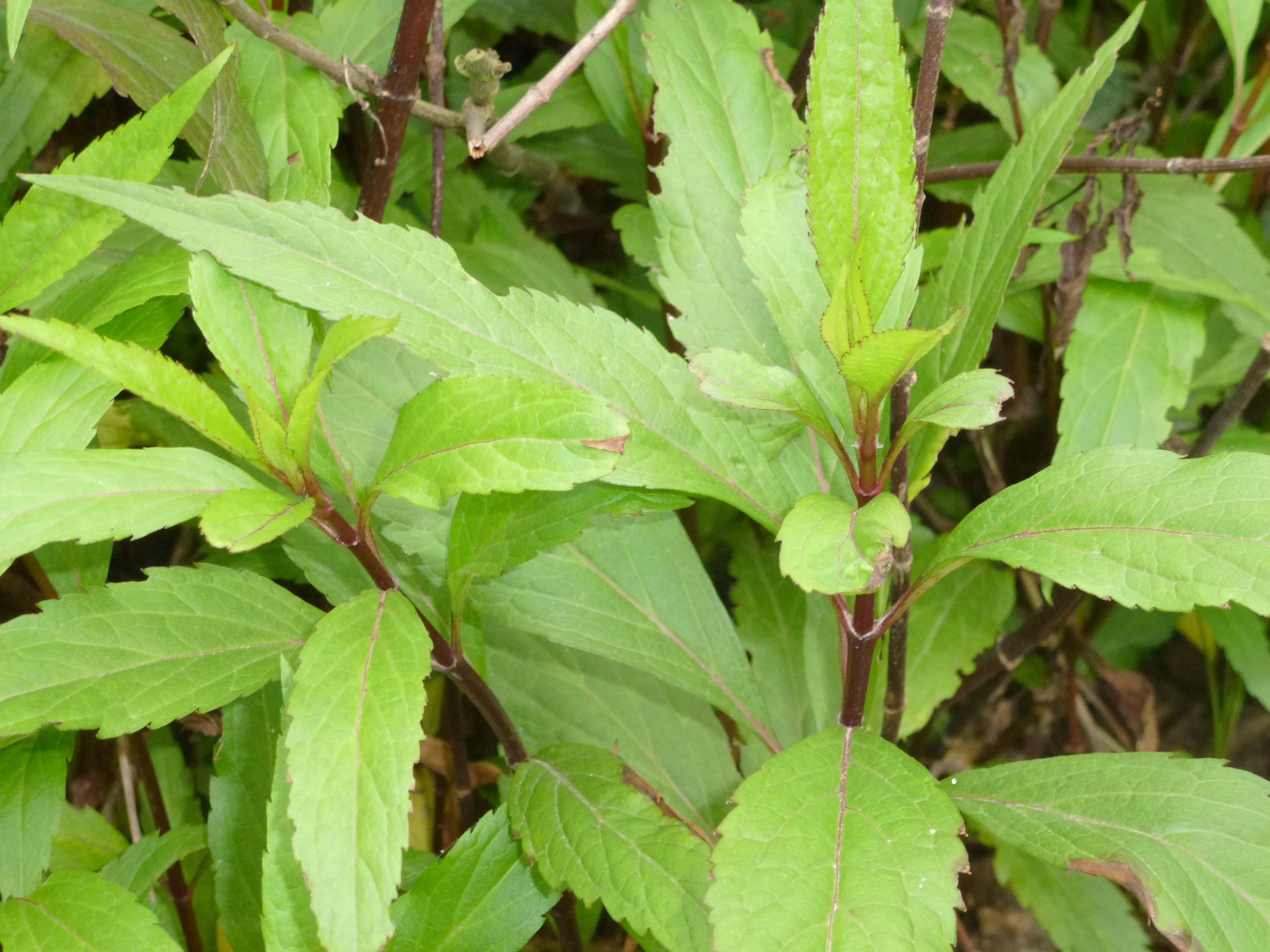 Eupatorium fortunei